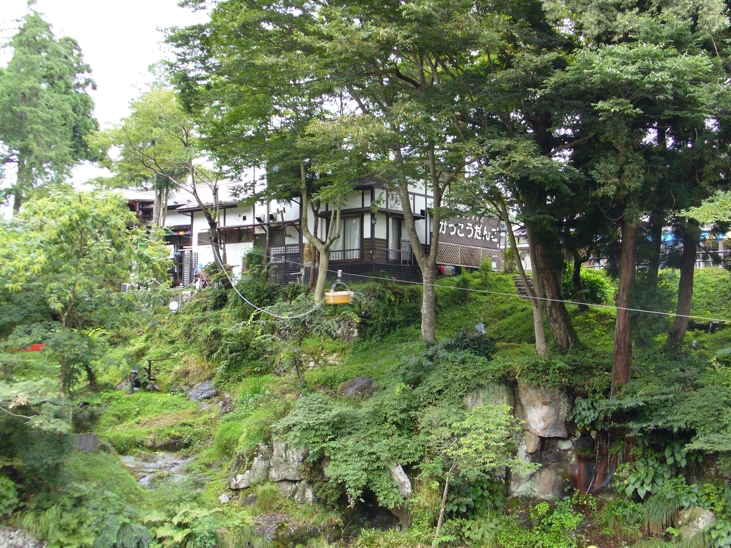 Ropeway conveyor to deliver Kakko Dango (Kakko dumpling), the local speciality of Genbikei, Iwate Prefecture, Japan